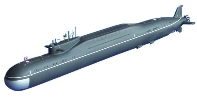 Model of a Russian submarine Projekt 955 (Borei class submarine).